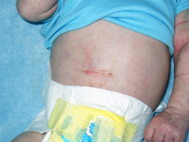 Horizontal cut 10 days after surgery (Psyloric Stenosis) in a 4 weeks old baby.